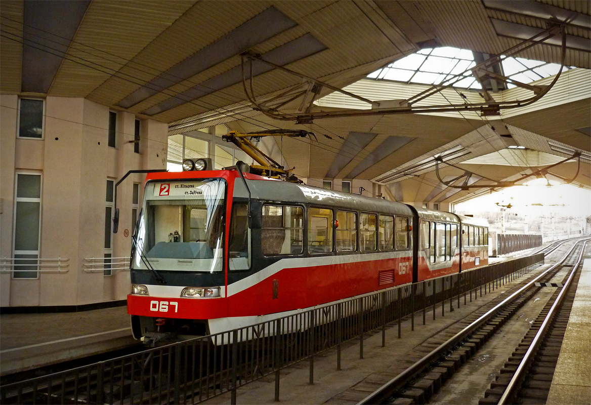 Metrotram